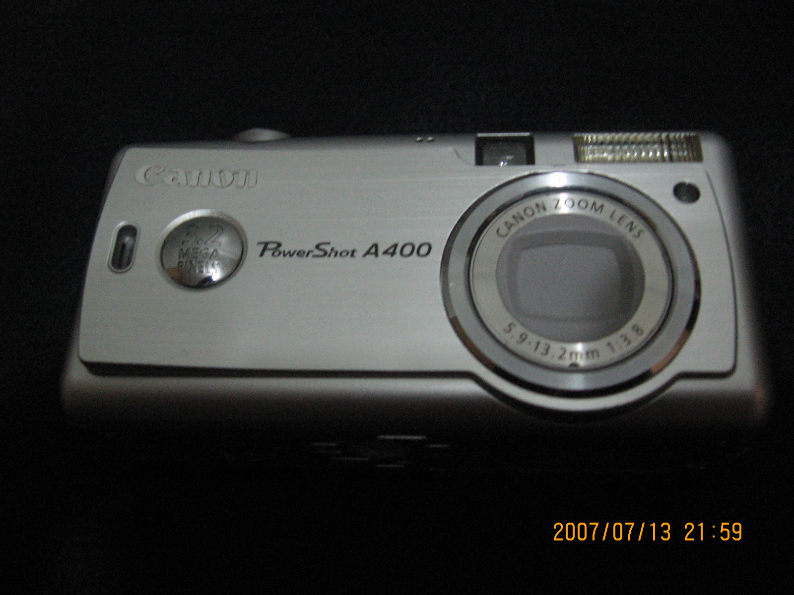 Canon PowerShot A400 digital camera